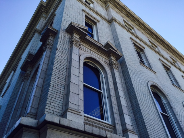 This is the building where Cleveland Clinic began in 1921.